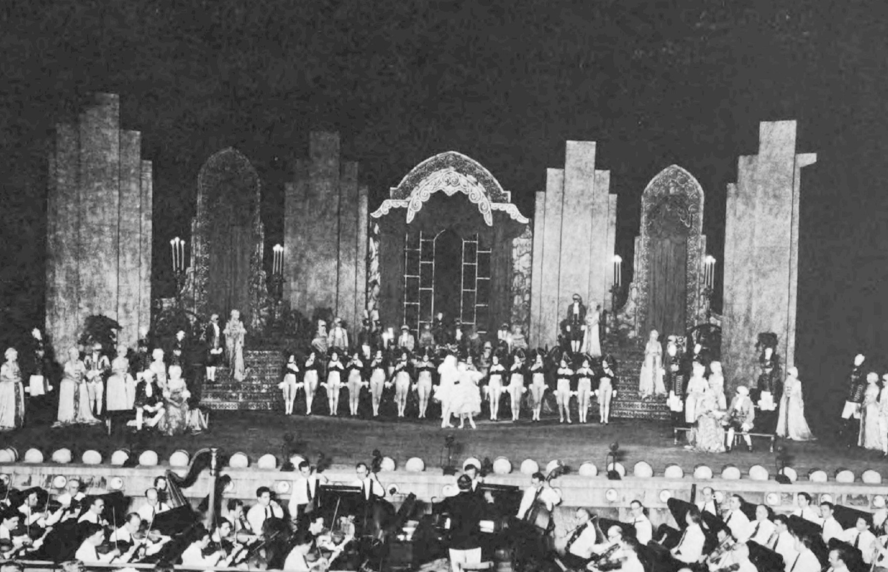 Photo of the stage at the Municipal Theater of St. Louis in 1932 during the production of The Last Waltz. A search for renewal was done at for both the author and the title of the book. While there were records located for persons with the last name of Holderness, Marvin E. Holderness was not among them. A search using the book's title turned up no records. There's no record of continuing copyright on this book.